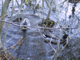 Anas platyrhynchos in Santa Fe reservoir, Massís del Montseny, la Selva, Catalonia